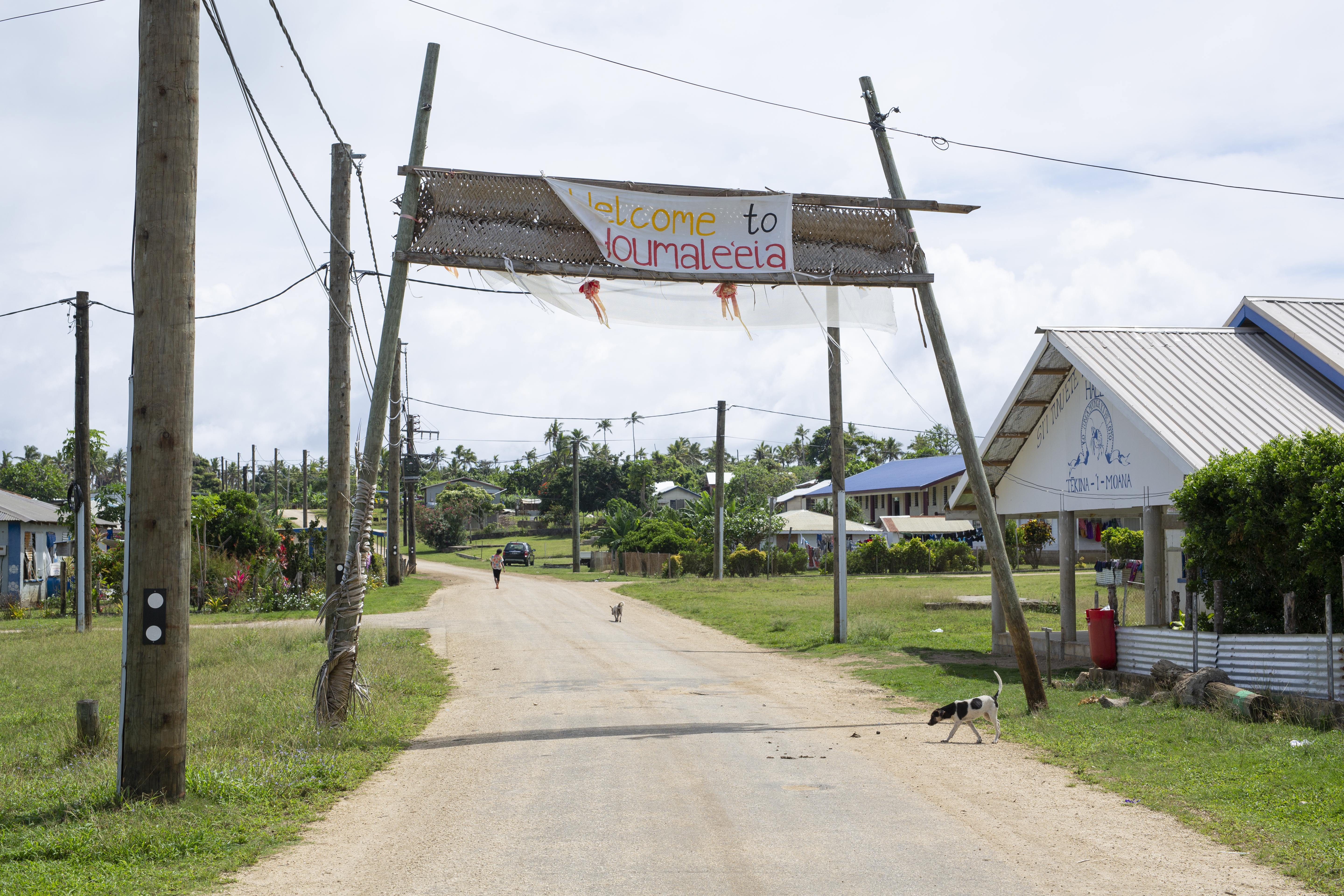 Faleloa, Foa Island, Haʻapai Islands, Tonga , Tonga